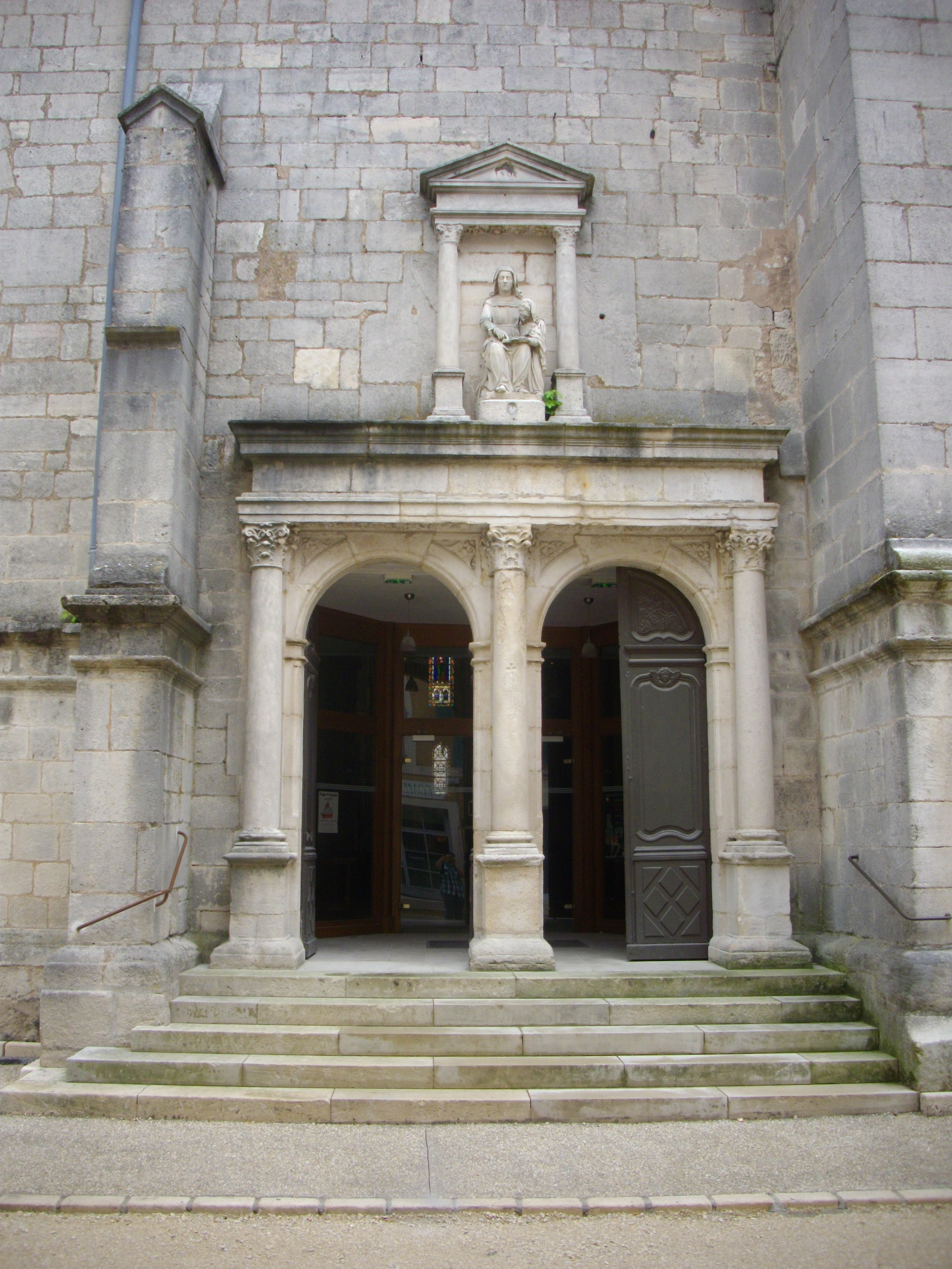 Saint Pantaleon church of Commercy (Meuse, France). Portal .